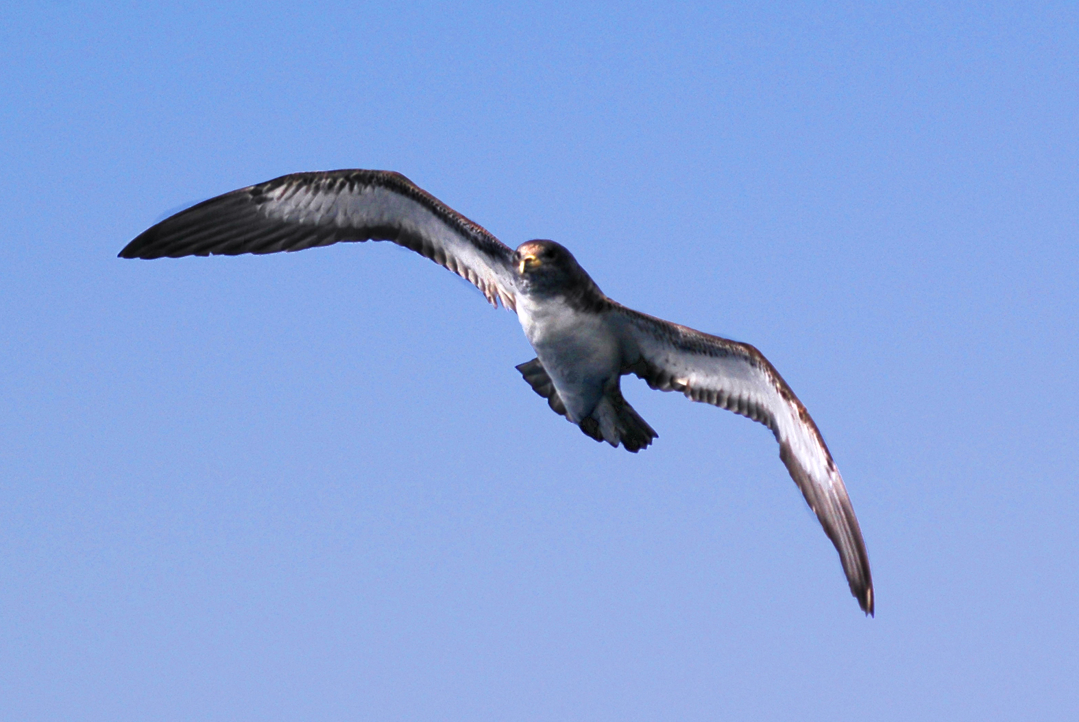 Cory's Shearwater Calonectris borealis in flight at La Gomera, Canary Islands